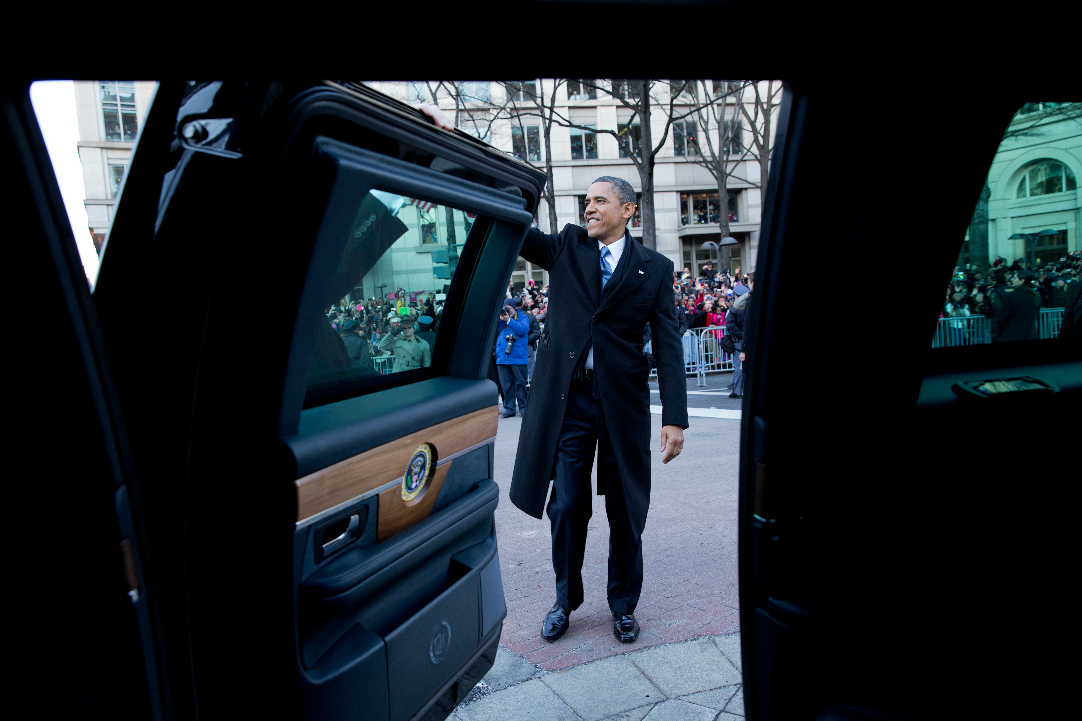 United States President Barack Obama waves to parade watchers after walking in the 2013 presidential inaugural parade along Pennsylvania Avenue in Washington, D.C. on January 21, 2013.